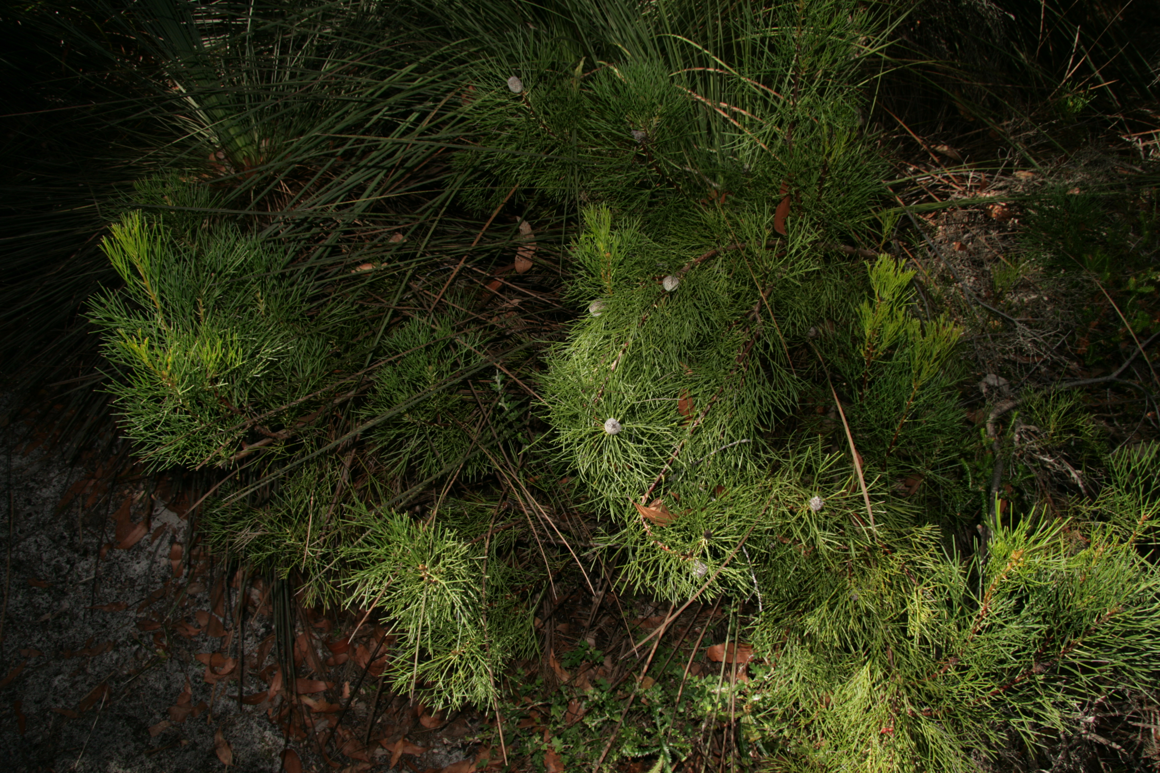 Isopogon anethifolius habit (Botany Bay National Park, near Henry Head Lane N of Golf Club)